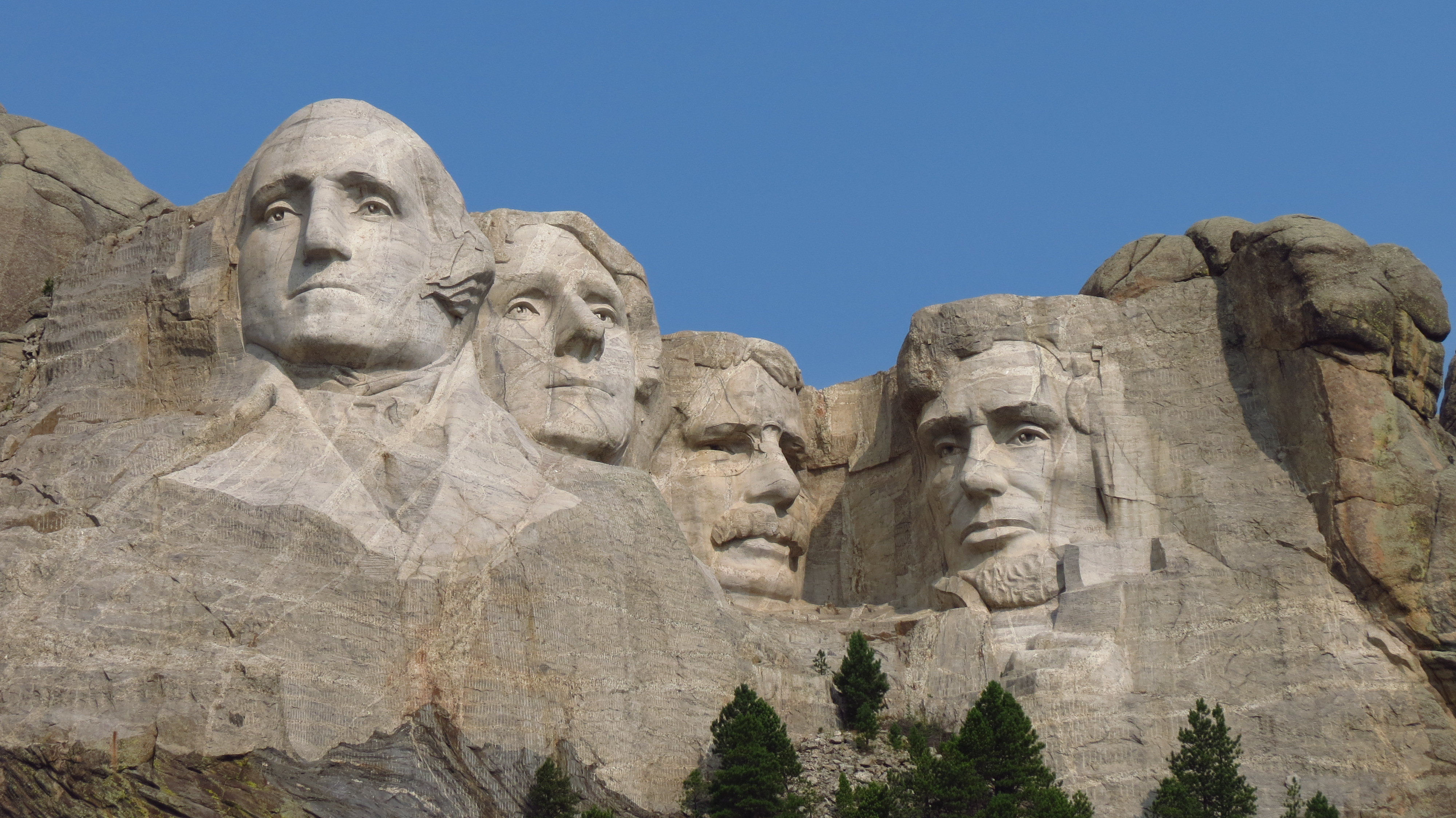 Four presidents of the United States (from left to right): George Washington, Thomas Jefferson, Theodore Roosevelt, and Abraham Lincoln